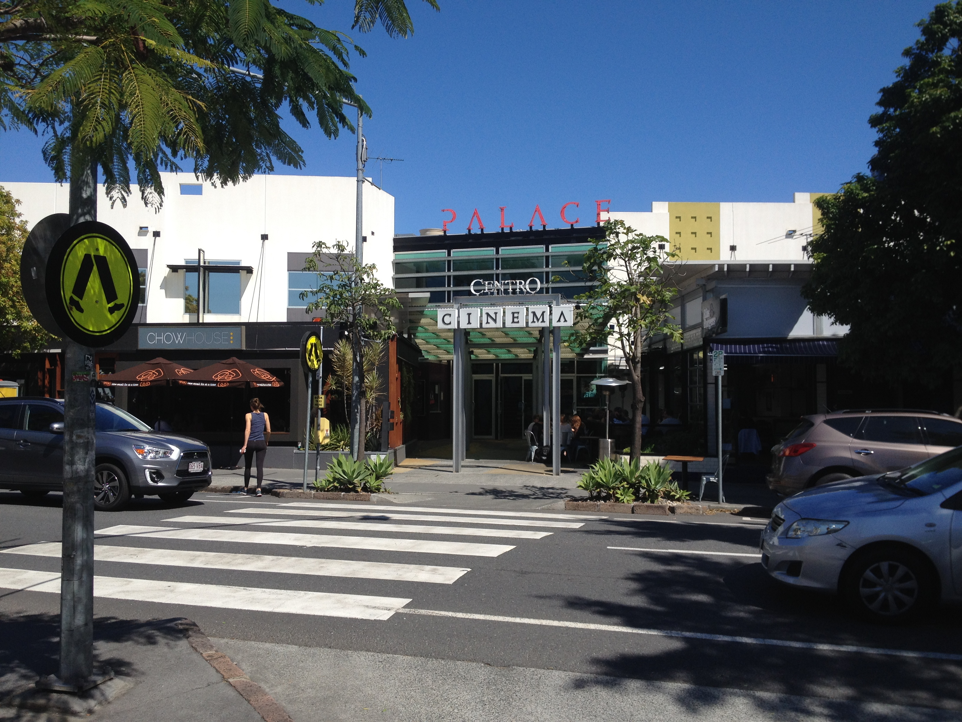 James Street, Fortitude Valley, Brisbane, Queensland